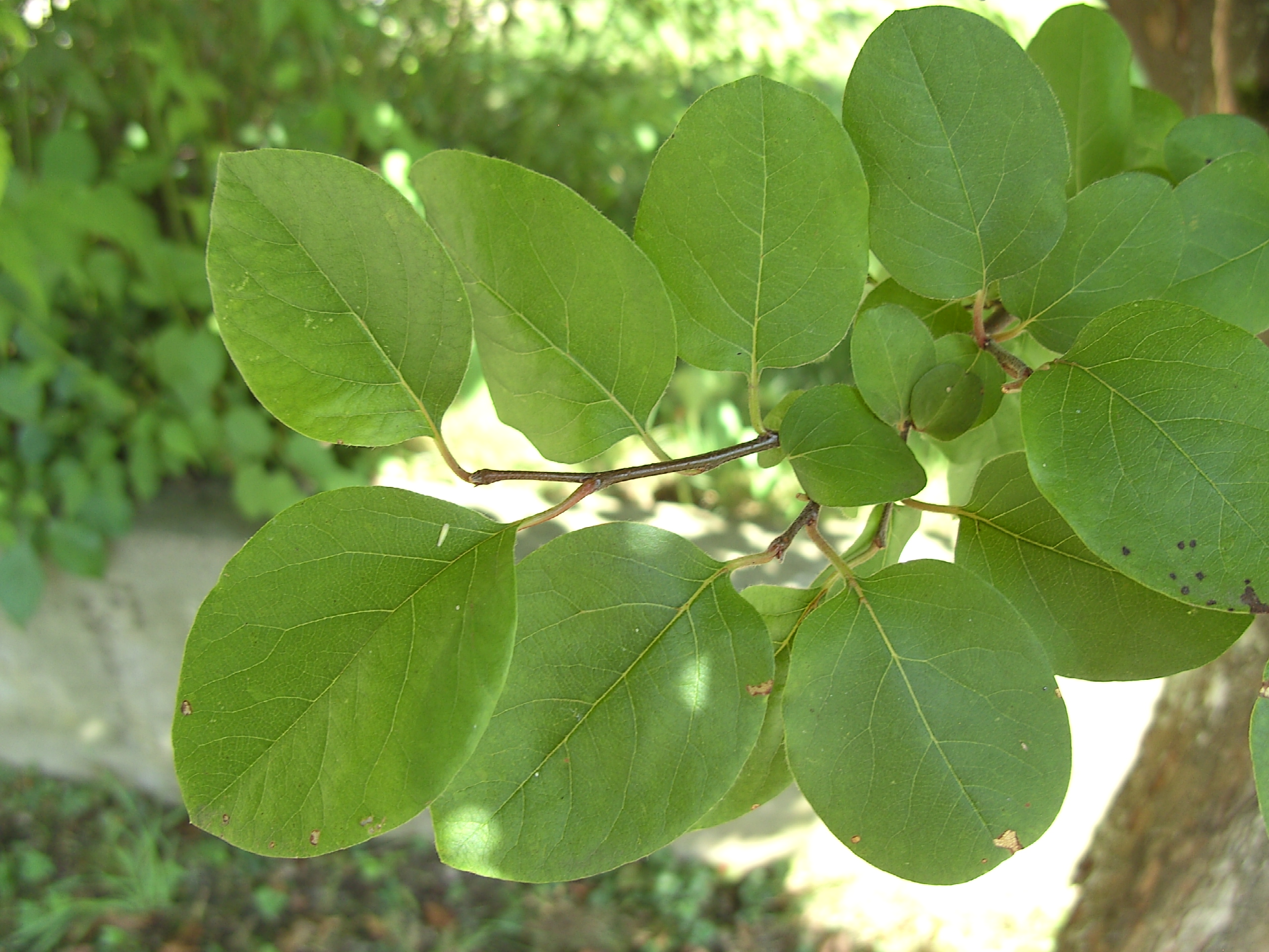 Leaves of Cydonia oblonga.